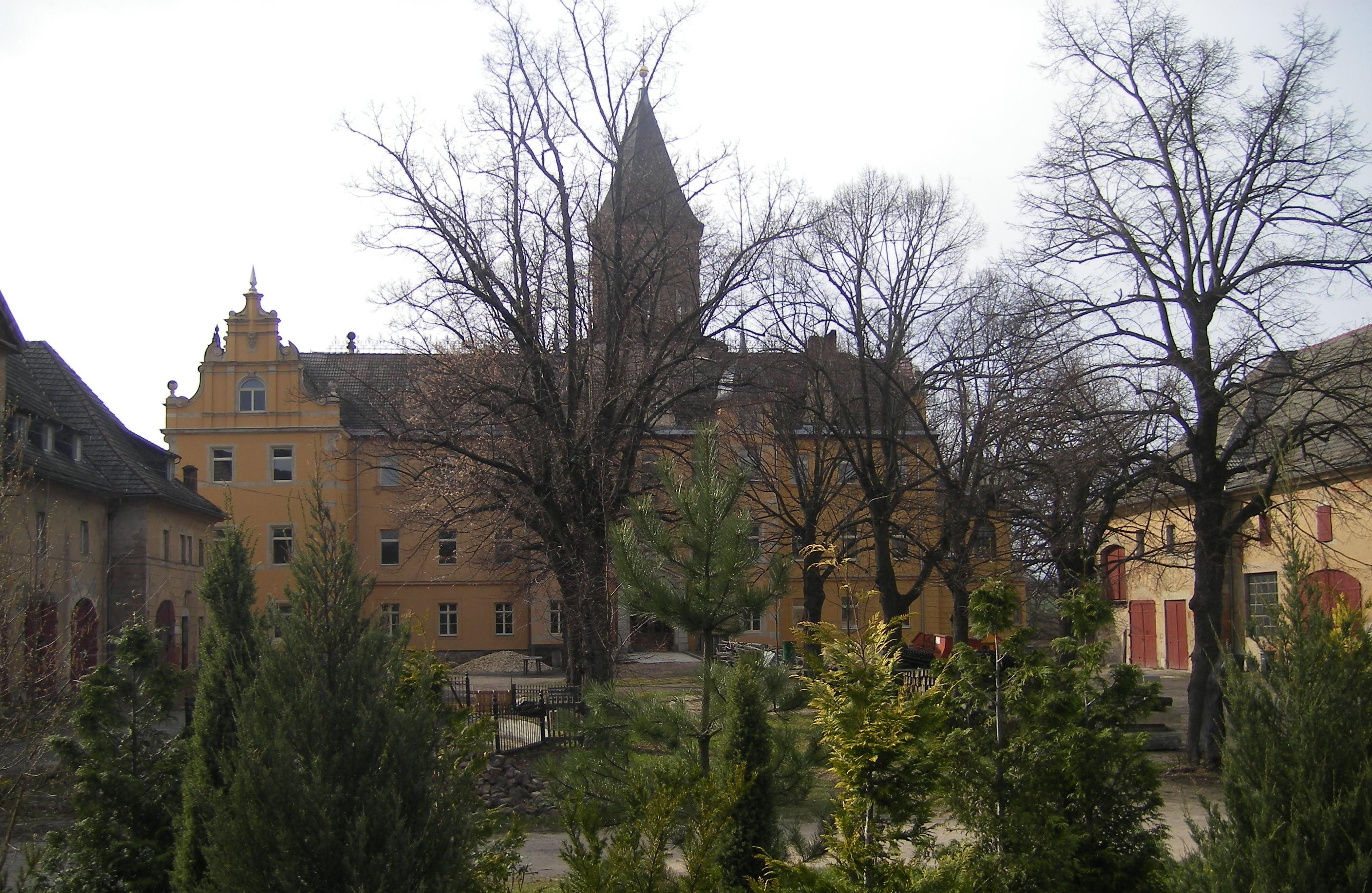 The castle of Ehrenberg in spring in the thuringian Altenburg, Germany.